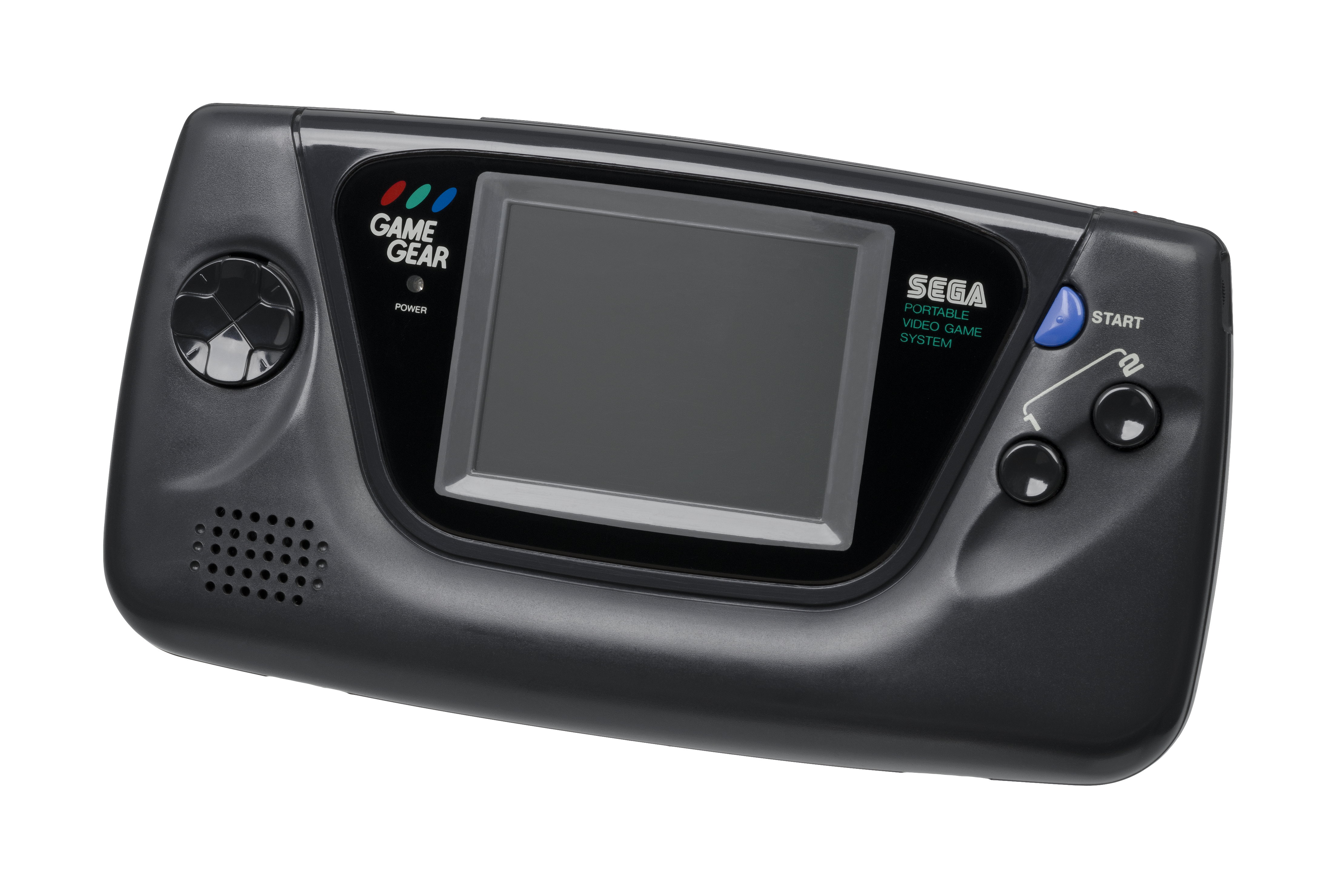 The Game Gear, a handheld video game system created by Sega and first released in 1990.